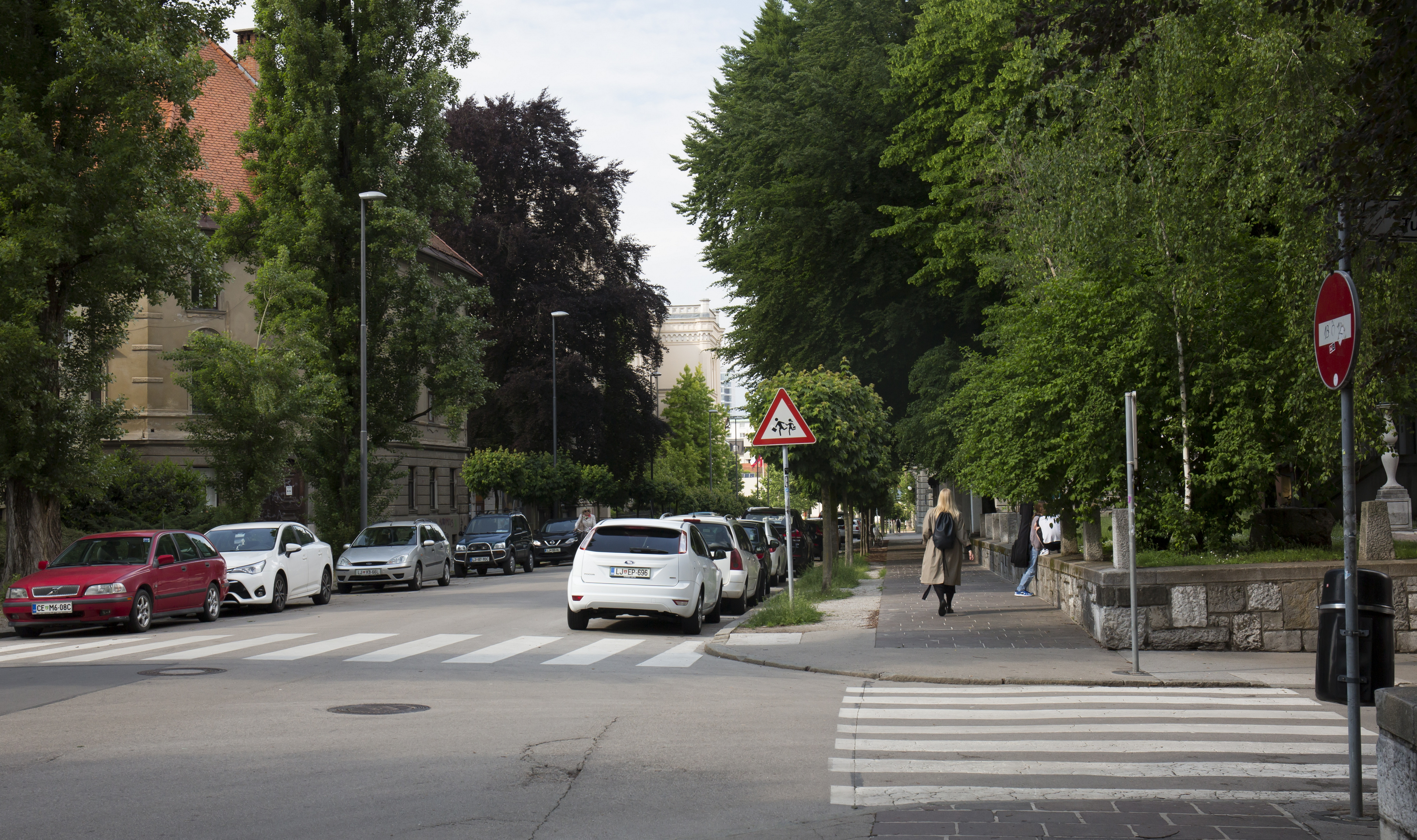 Vega street in Ljubljana, view towards the Congress Square.